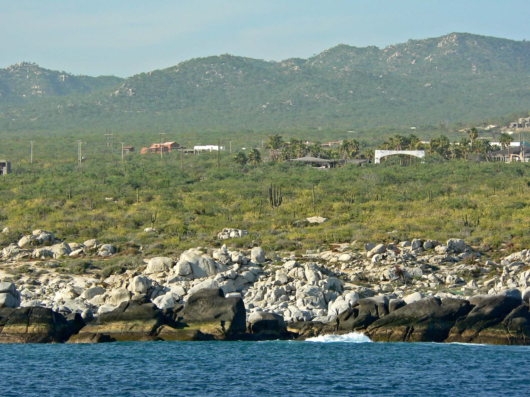 Photo of Cabo San Lucas coastline and vegetation, Mexico